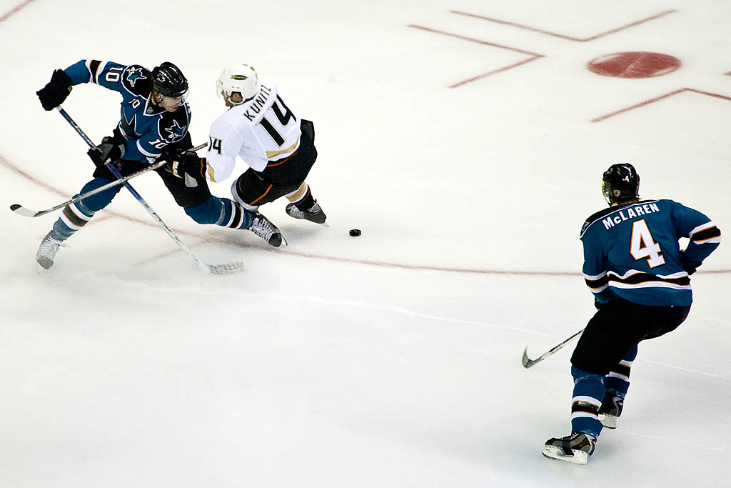 San Jose Sharks vs. Anaheim Ducks Pre-season game 9/21/2007